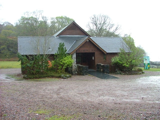 Glenuig Hall Opened on 1st. April 1995.